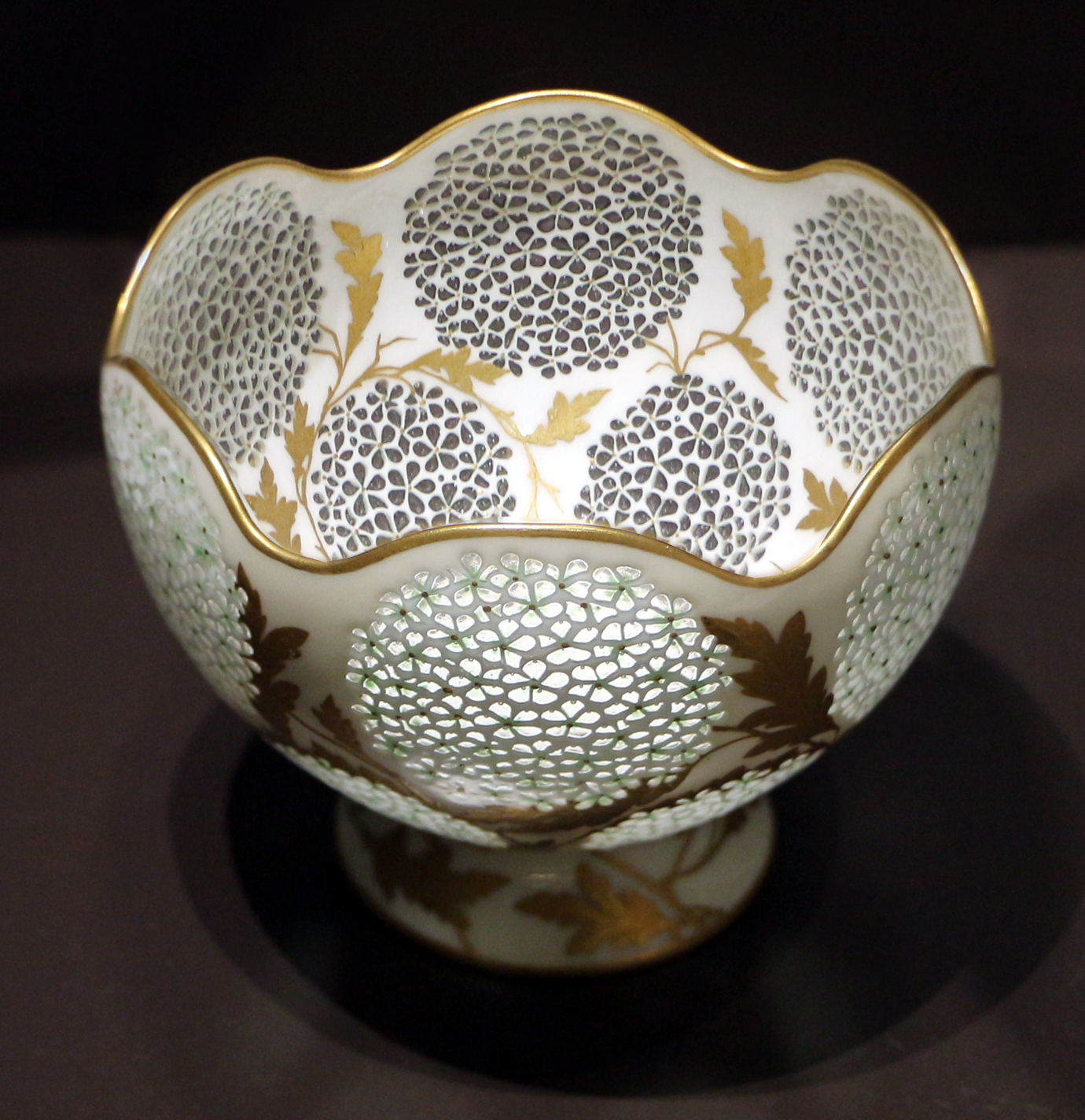 Decorative arts in the Musée d'Orsay